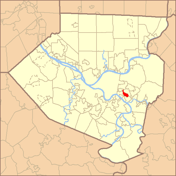 Map highlighting the municipality within Allegheny County, Pennsylvania.